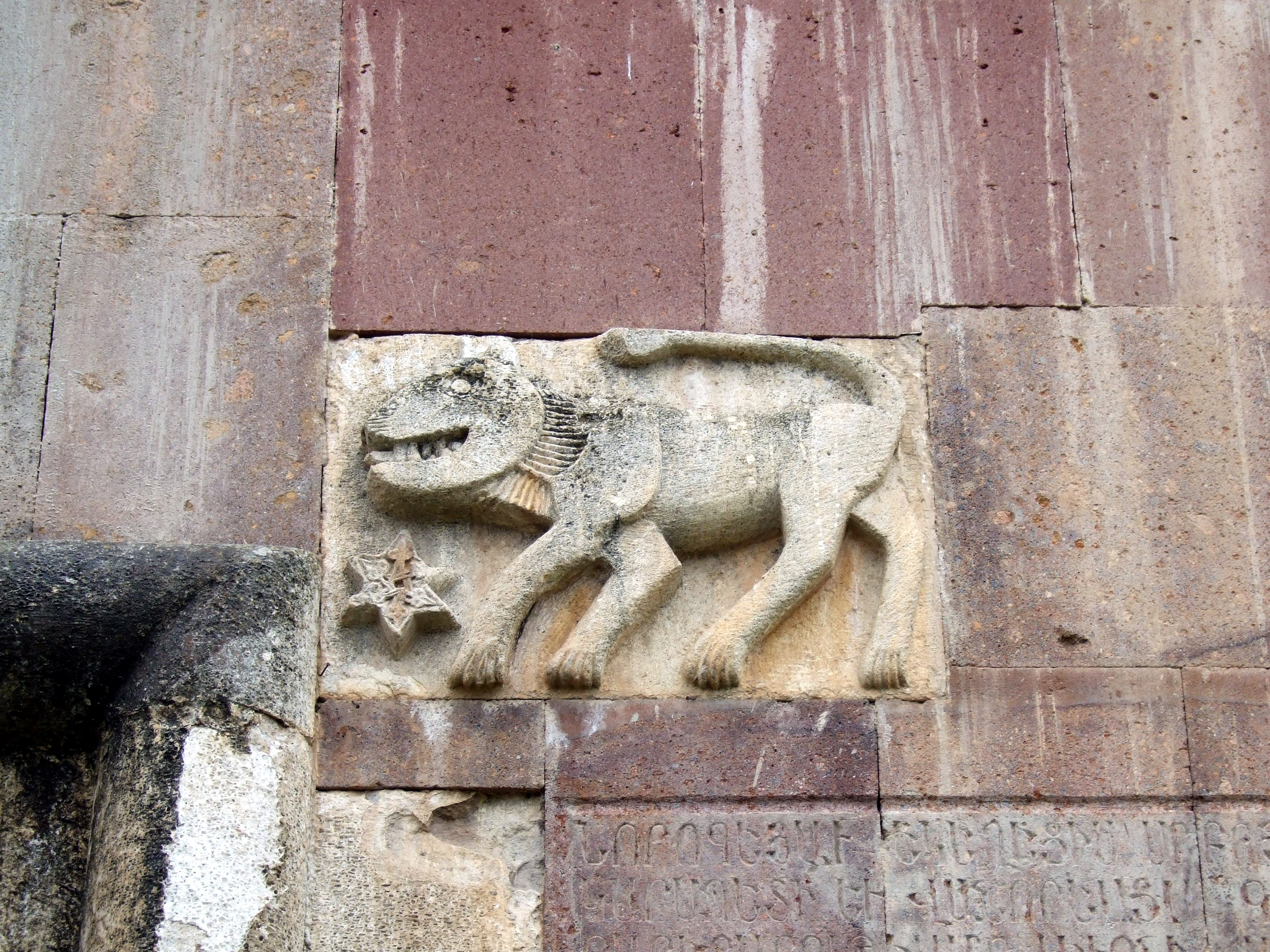 Animal symbol on the wall of Gandzasar, Artsakh Republic